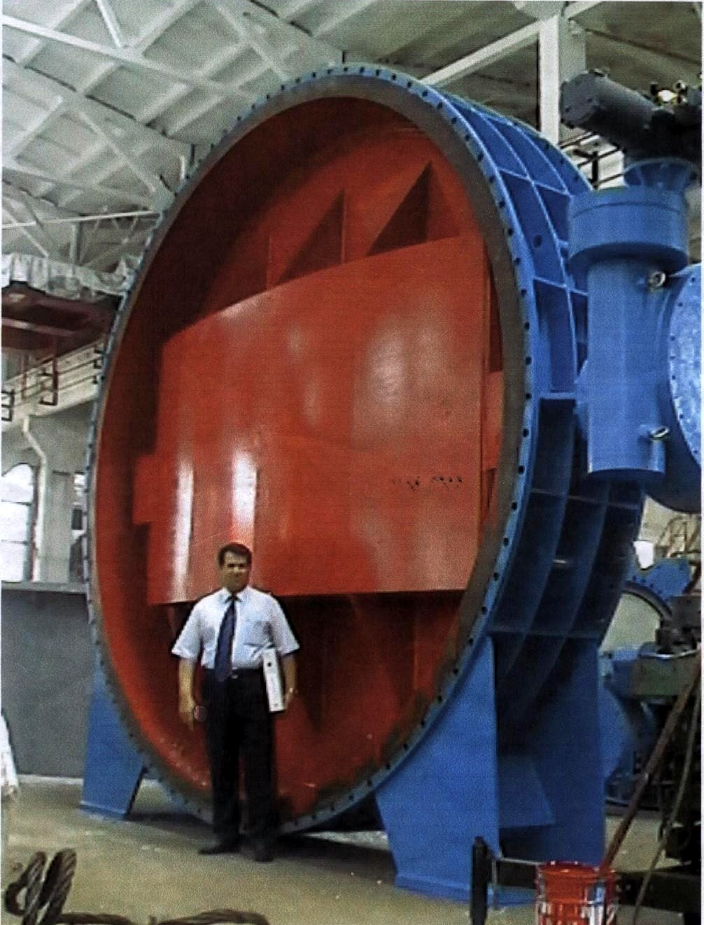 Huge butterfly valve, DN 5000